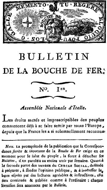 French Revolution cover from "La Bouche de Fer" broadside